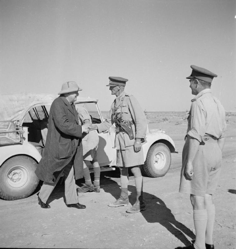 The British Army in North Africa 1942 Winston Churchill shaking hands with Lieutenant General Ramsden, commanding 30 Corps, while visiting the El Alamein area, 7 August 1942.